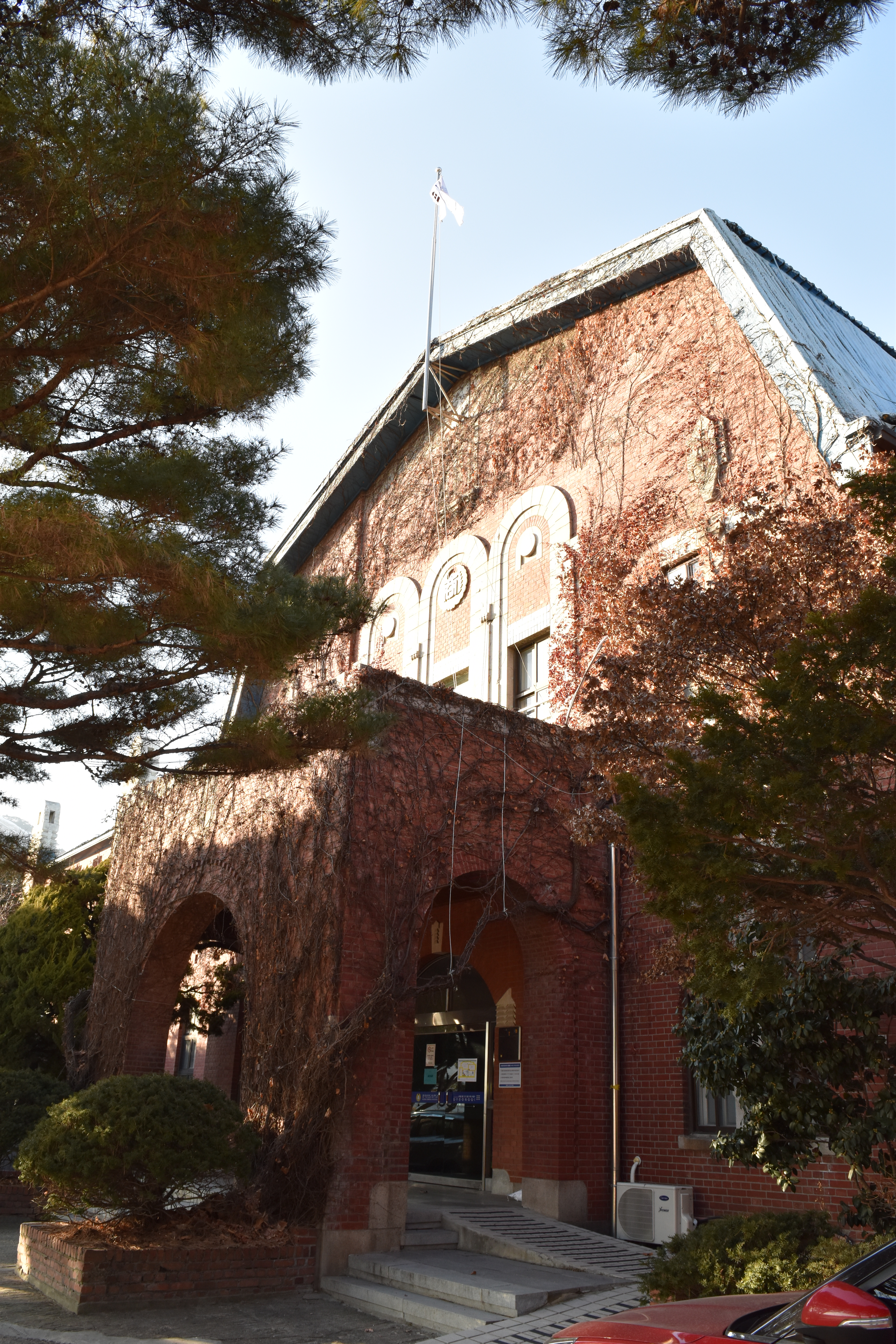 Gyeonggi Commercial High School in Seoul, South Korea